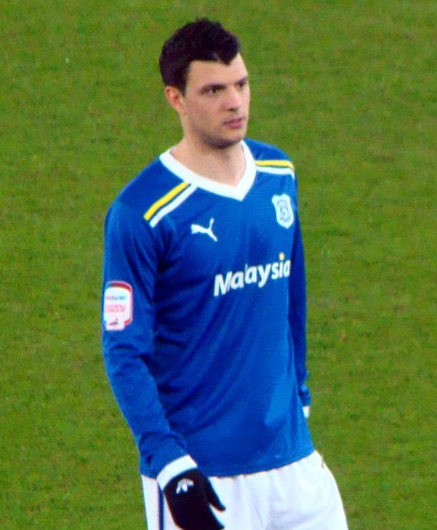 14/02/12 Cardiff V Peterborough, Championship, Cardiff City Stadium, Cardiff, Wales